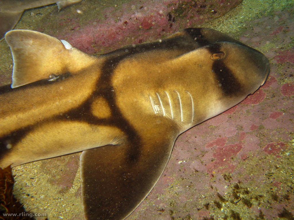 Profile of a Port Jackson shark (Heterodontus portusjacksoni). Fairy Bower, Manly, NSW